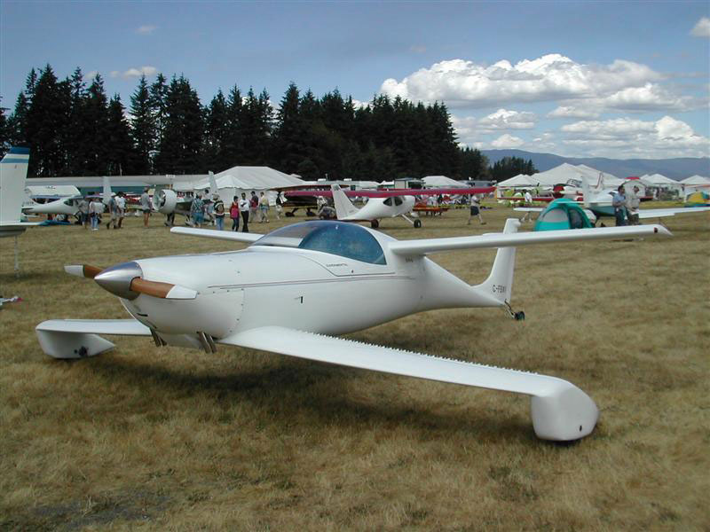 A Quickie Q2 at the 2003 Arlington Fly-In. Photo by Eric Gideon ([1].